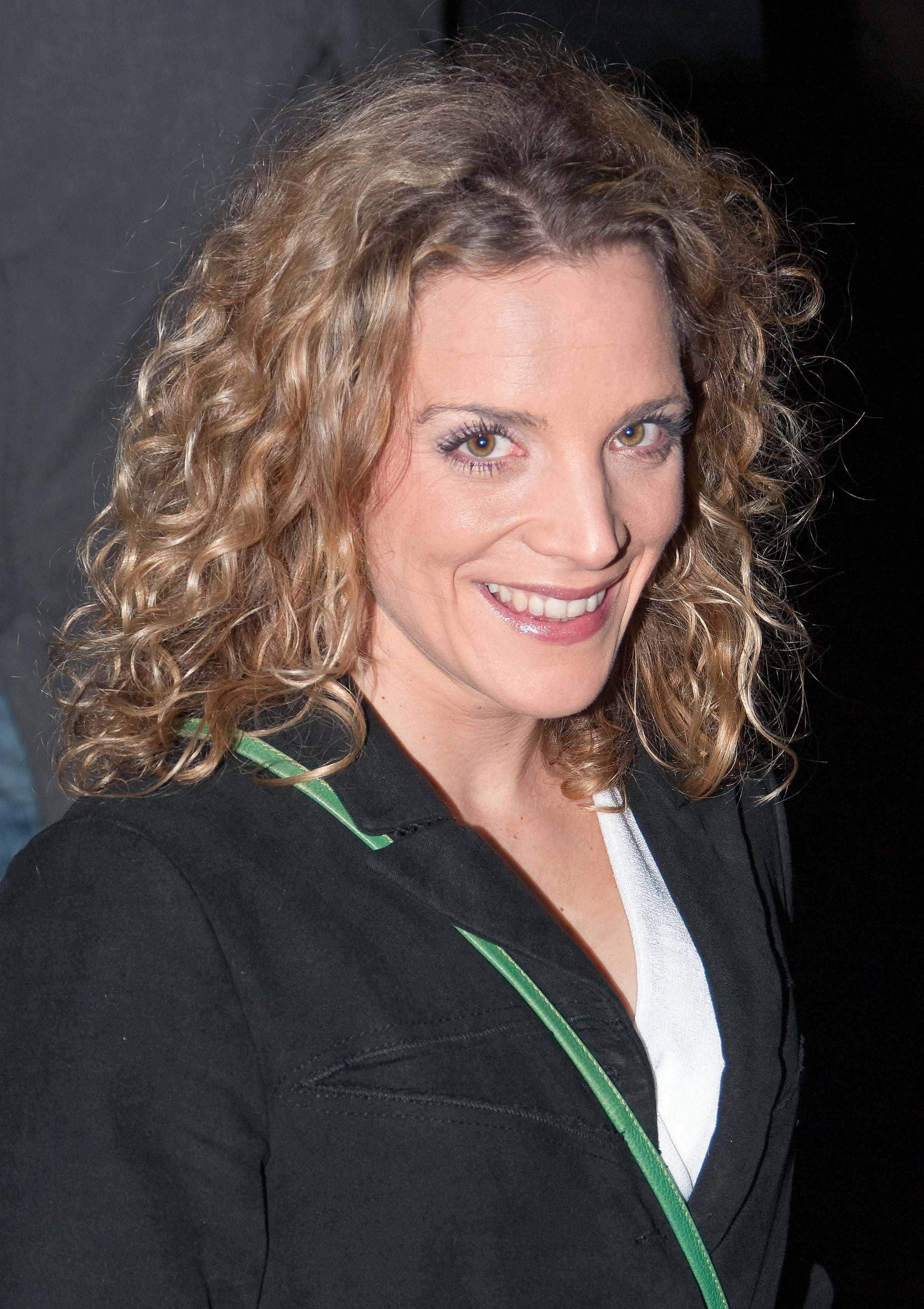 German actress Judith Hildebrandt at the 59th Berlin International Film Festival